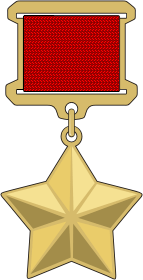 Medal “Gold Star” of a “Hero of the Soviet Union”